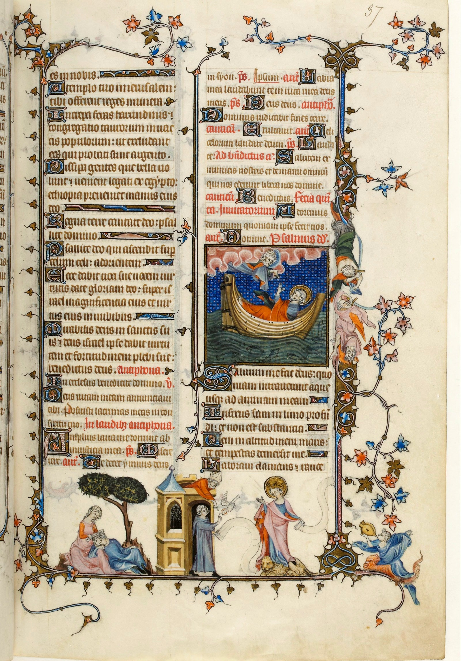 Jean Pucelle. Belleville Breviary, 1323-26. Bibliotheque Nationale, Paris. (MS. Lat. 10484, folio 37 recto)